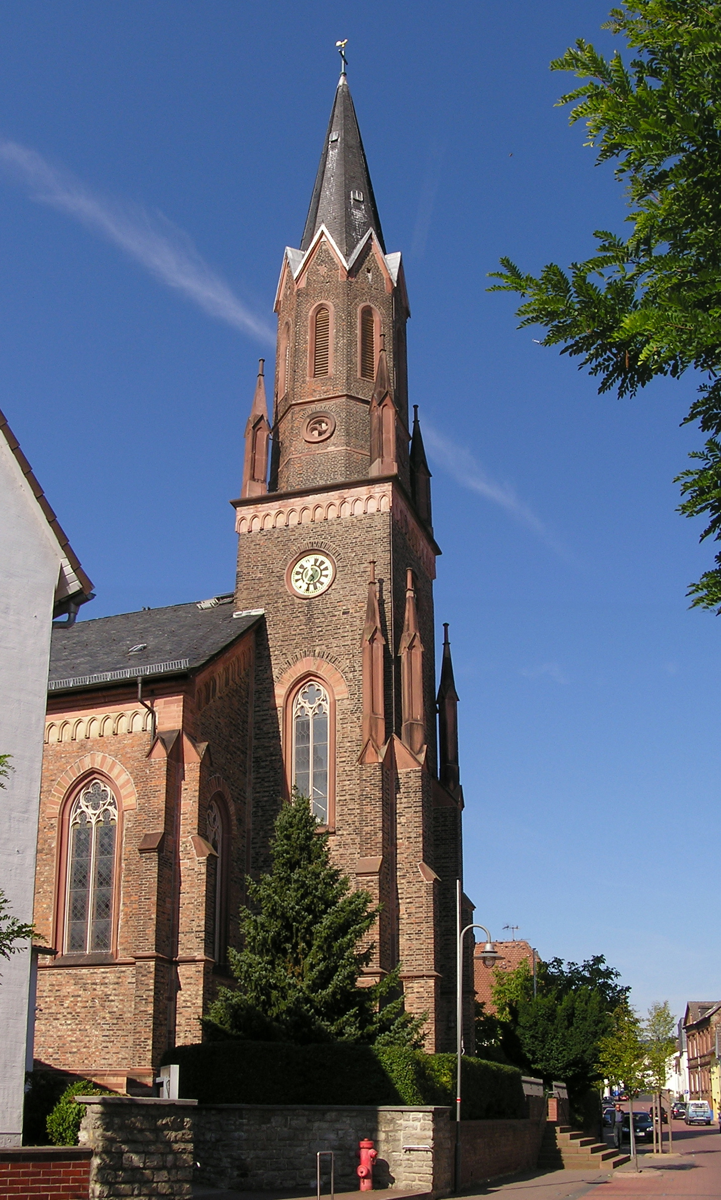 The evangelic-lutheran church in Friedrichsdorf-Seulberg